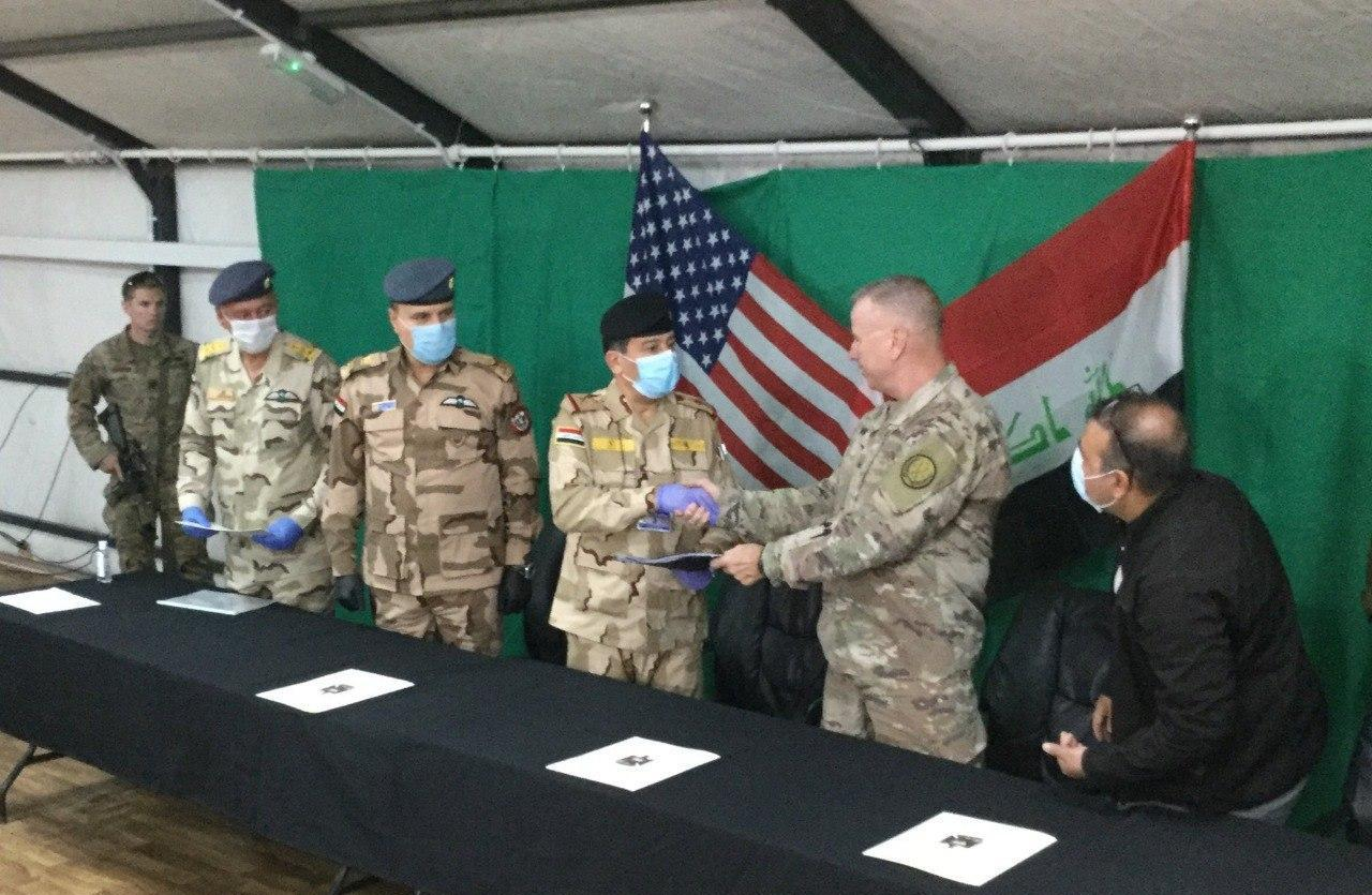 Transfer of Qayara Airfield West from Operation Inherent Resolve to Iraqi security forces